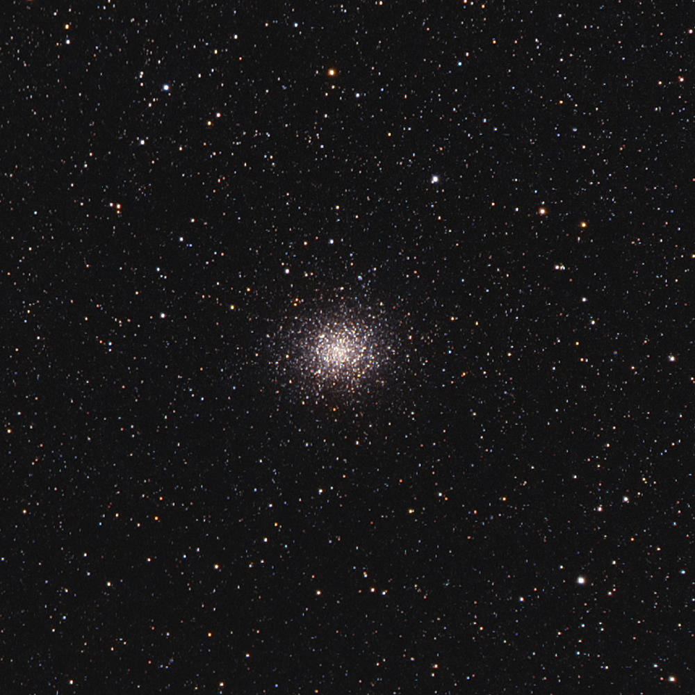 Messier 19 in Ophiuchus